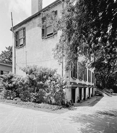 Swordgate House, 109 Tradd Street (moved from 32 Legare Street), Charleston (Charleston County, South Carolina) (cropped)